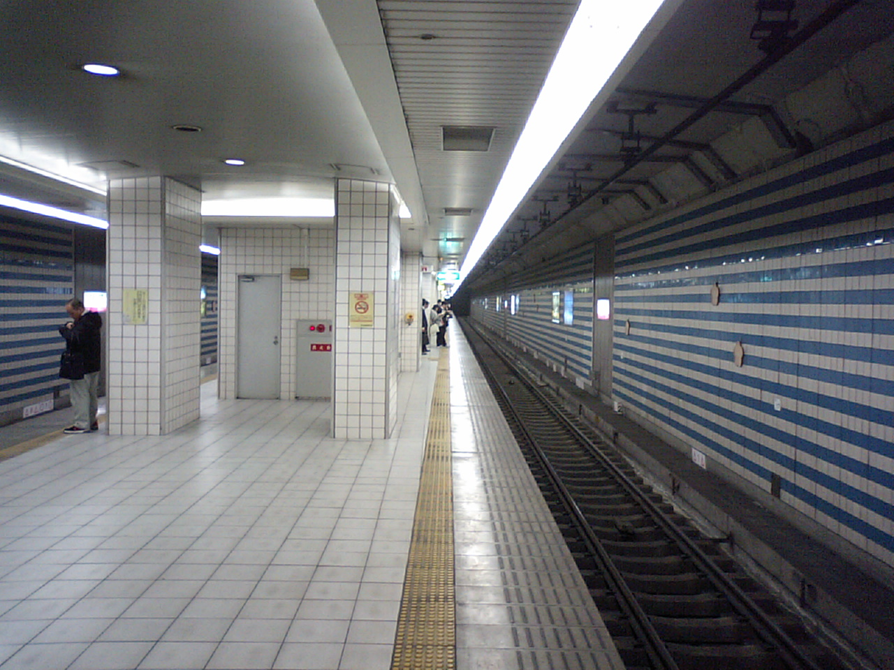 Platform of Ōsaka-temmangū station.